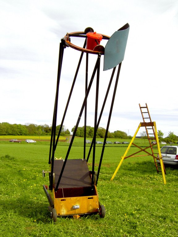 Newtonian telescope - 30" mirror diameter. VTT (Vogelsberg Teleskop-Treffen 2005).